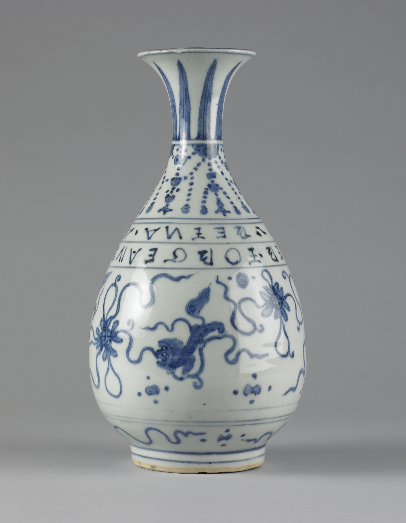 The inscription around the shoulder of this blue and white bottle, written upside-down in imitation of a Portuguese model states that the vase was made in 1552 for Jorge Anriques, a Portuguese trading ship captain.